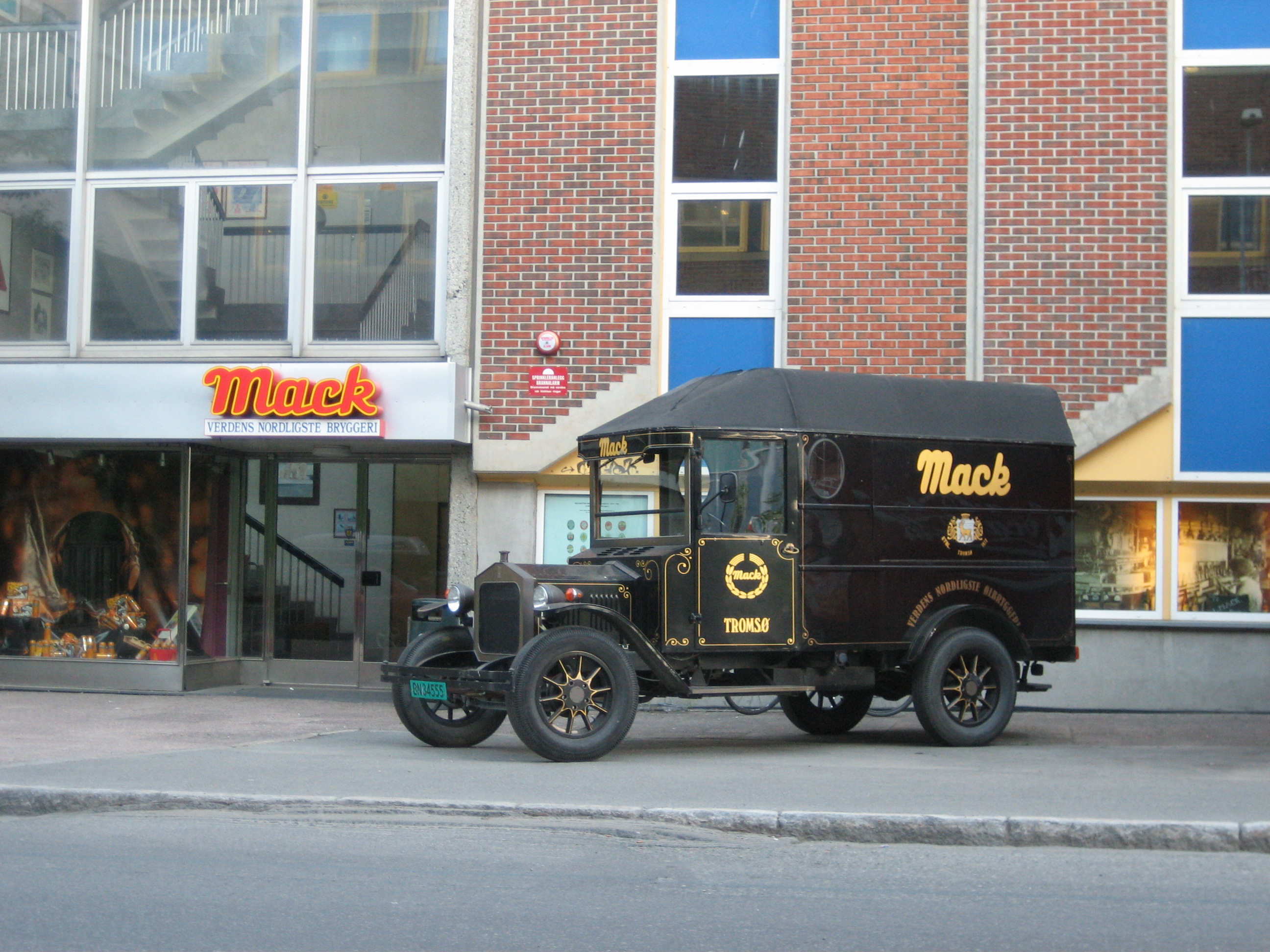 Beer truck in front of the entrance area of the Mack Brewery in Tromsø, Norway.